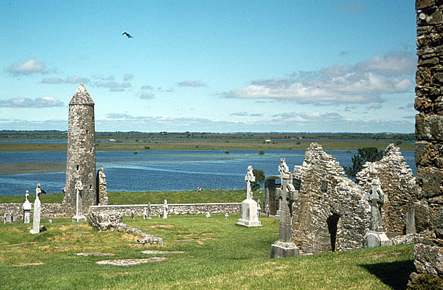 Clonmacnoise View of the River Shannon with one of the round towers. Much of the low lying areas were under water, despite this being nearly the end of June.